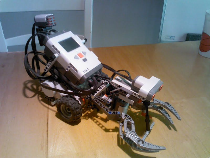 Robot Car